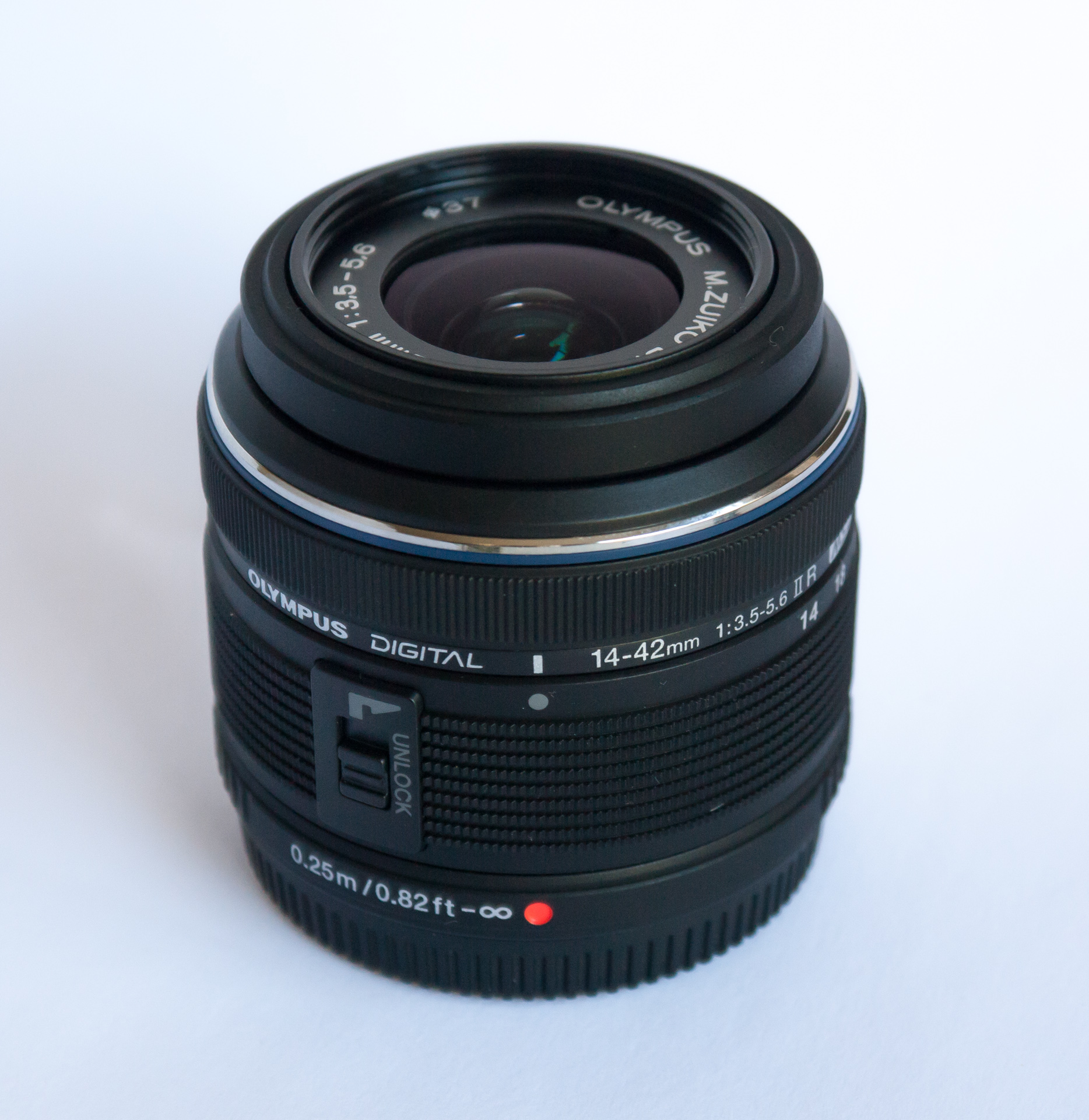 Olympus 14-42 II retracted